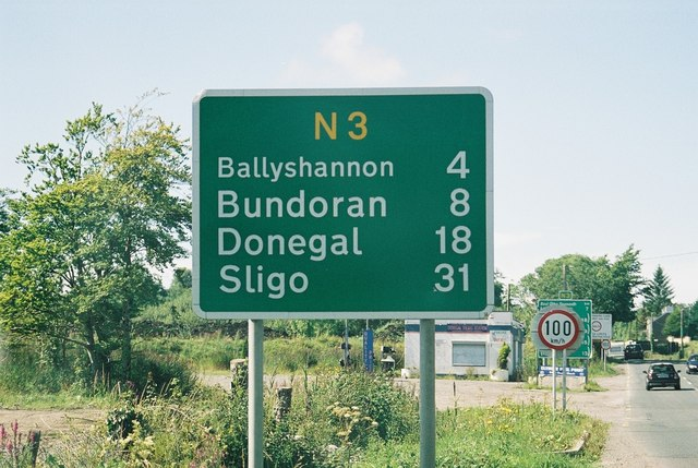 Westernmost A-road sign in the UK